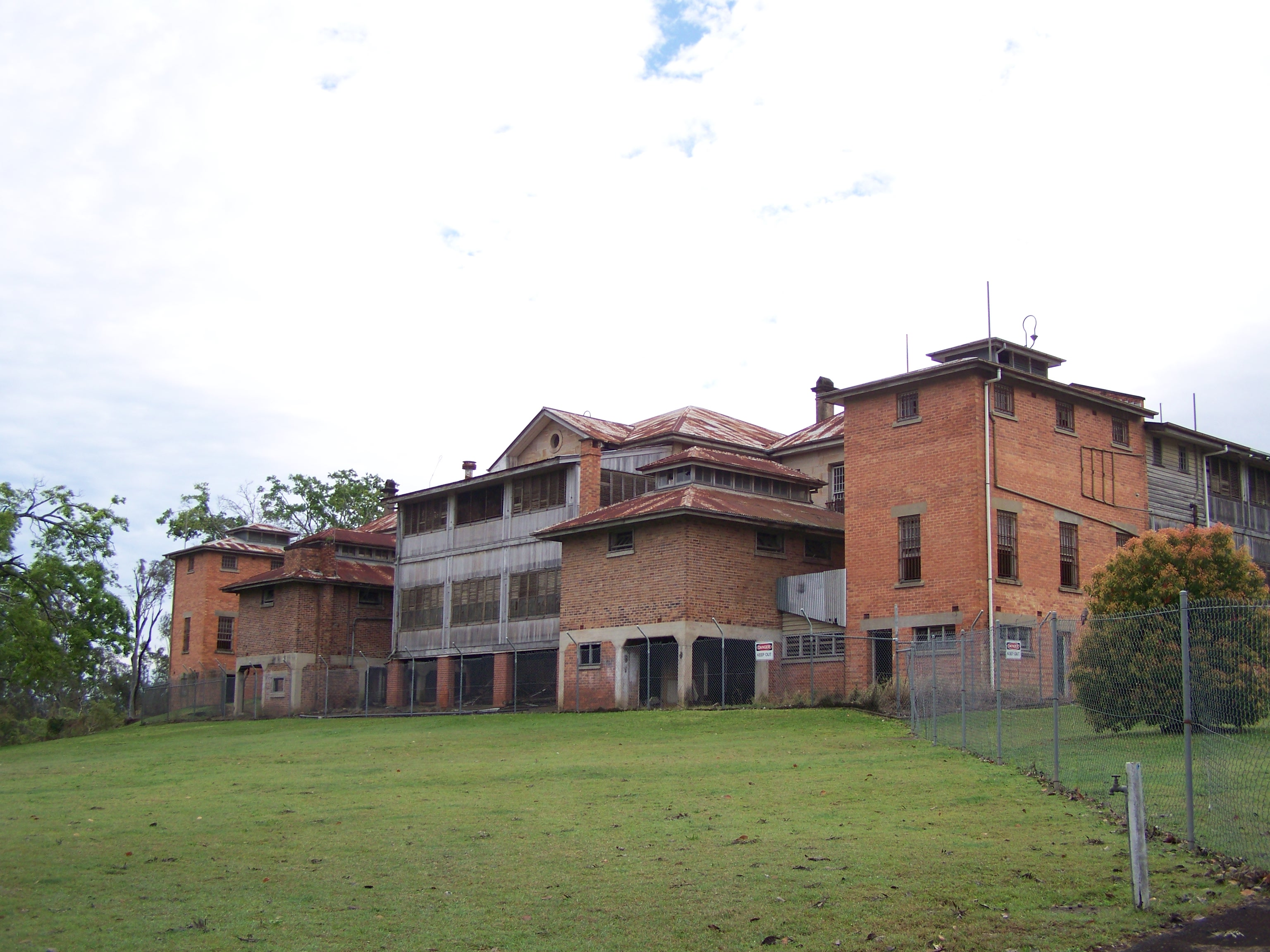 Woogaroo Lunatic Asylum, south face (abandoned)